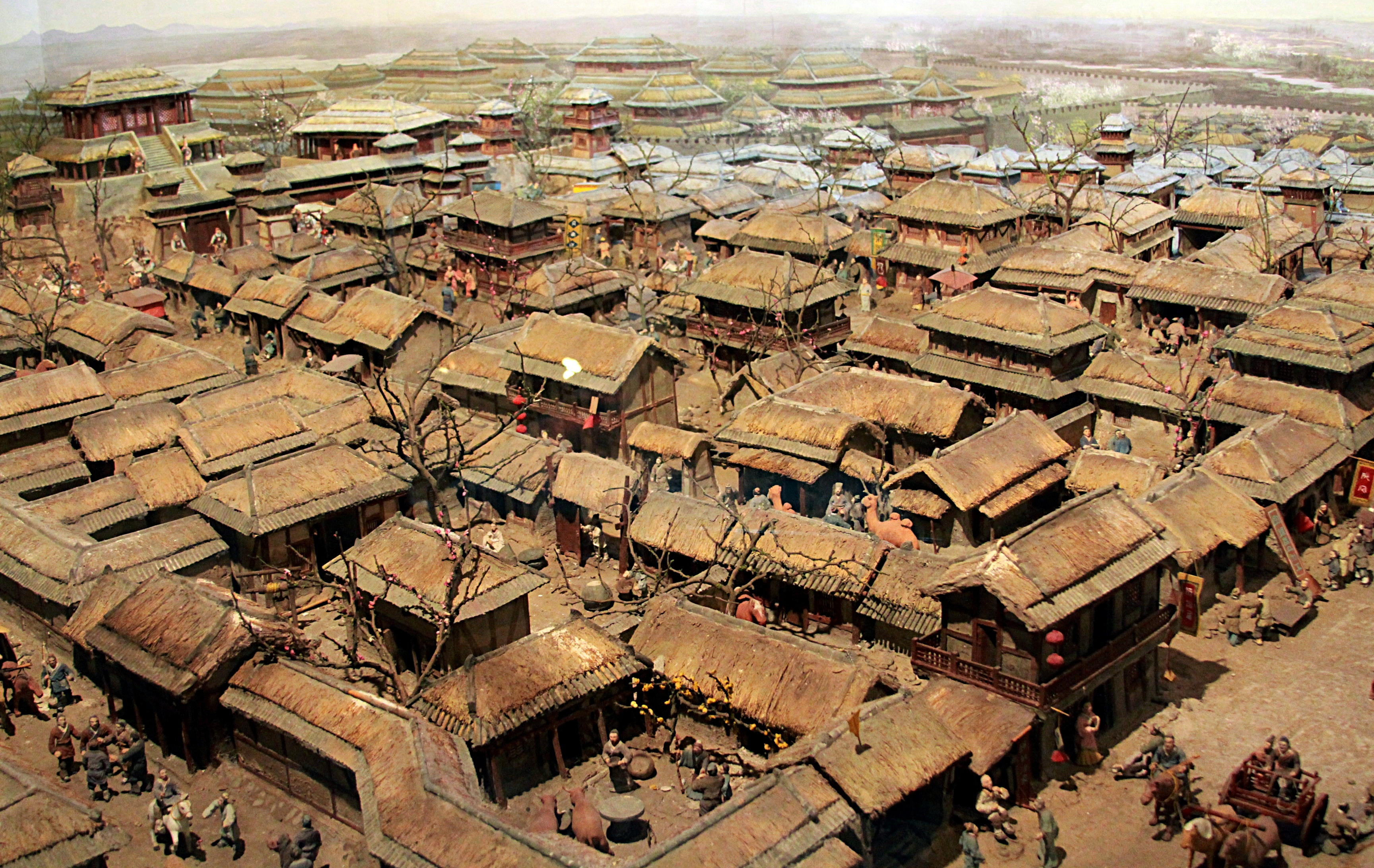 Photograph of a model of the ancient city of Linzi in the Museum of the Qi State.